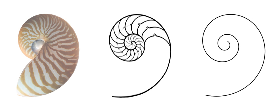 Nautilus Pompilius